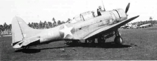 A U.S. Marine Corps Douglas SBD-4 Dauntless of Marine scout bomber squadron VMSB-233 at Henderson Field on Guadalcanal, Solomon Islands, in 1943. Note the bombload and the rough handpainted side number on the fuselage. VMSB-233 was established on 1 May 1942, and arrived at Guadalcanal in January 1943. The squadron was later redesignated VMTB-233 and operated during the Okinawa campaign from the escort carrier USS Block Island (CVE-106).